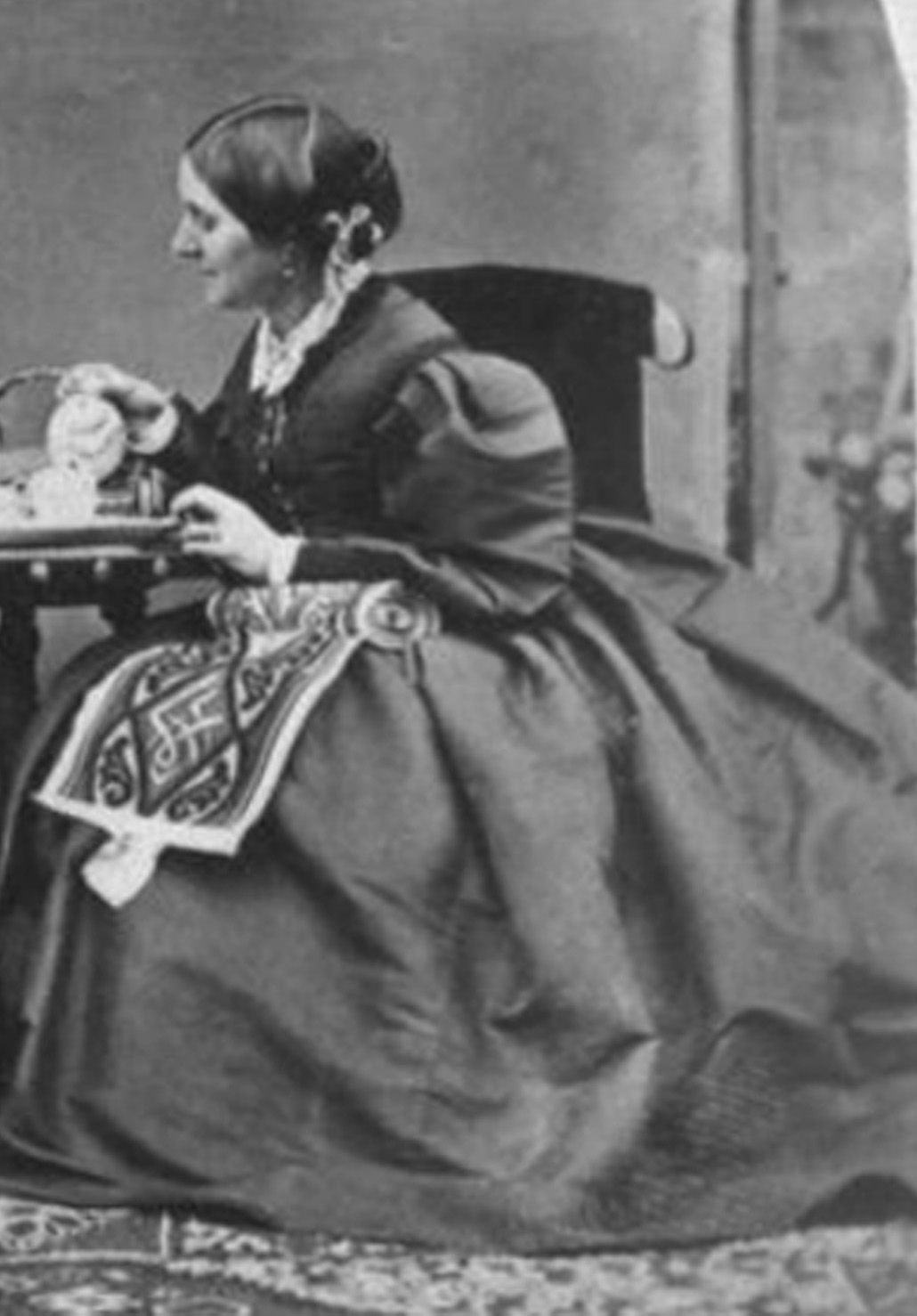 Arentina Barchard wife of Francis Barchard (1826-1904)who owned Horsted Place Sussex.